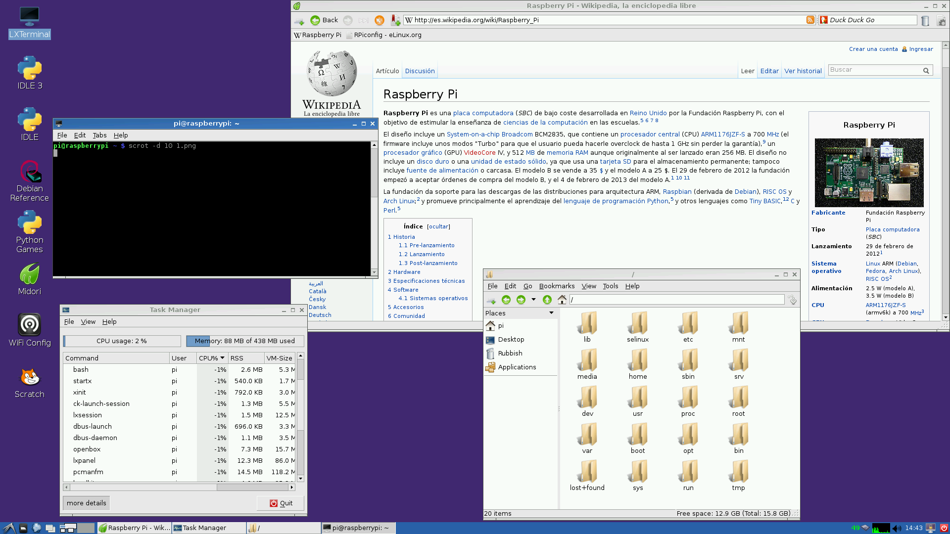 Raspbian desktop screenshot with different programs running.